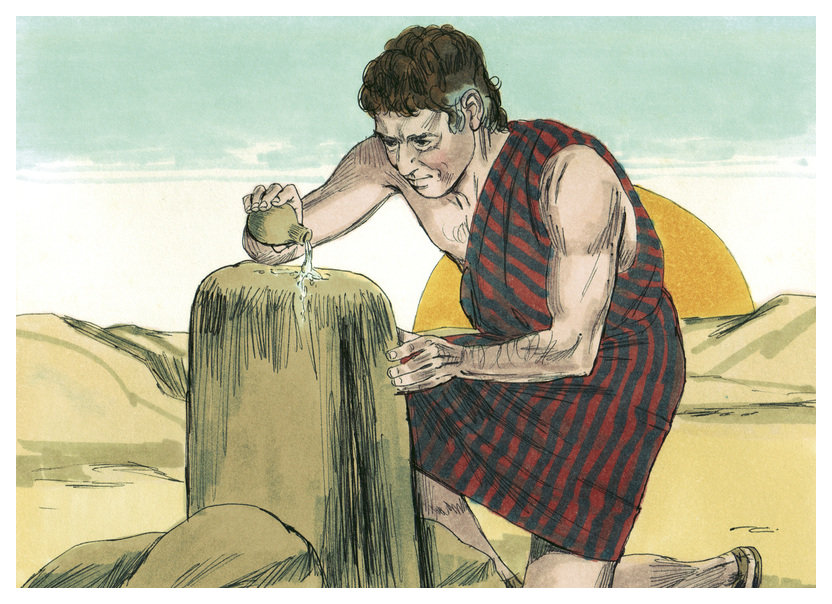 Biblical illustration of Book of Genesis Chapter 28